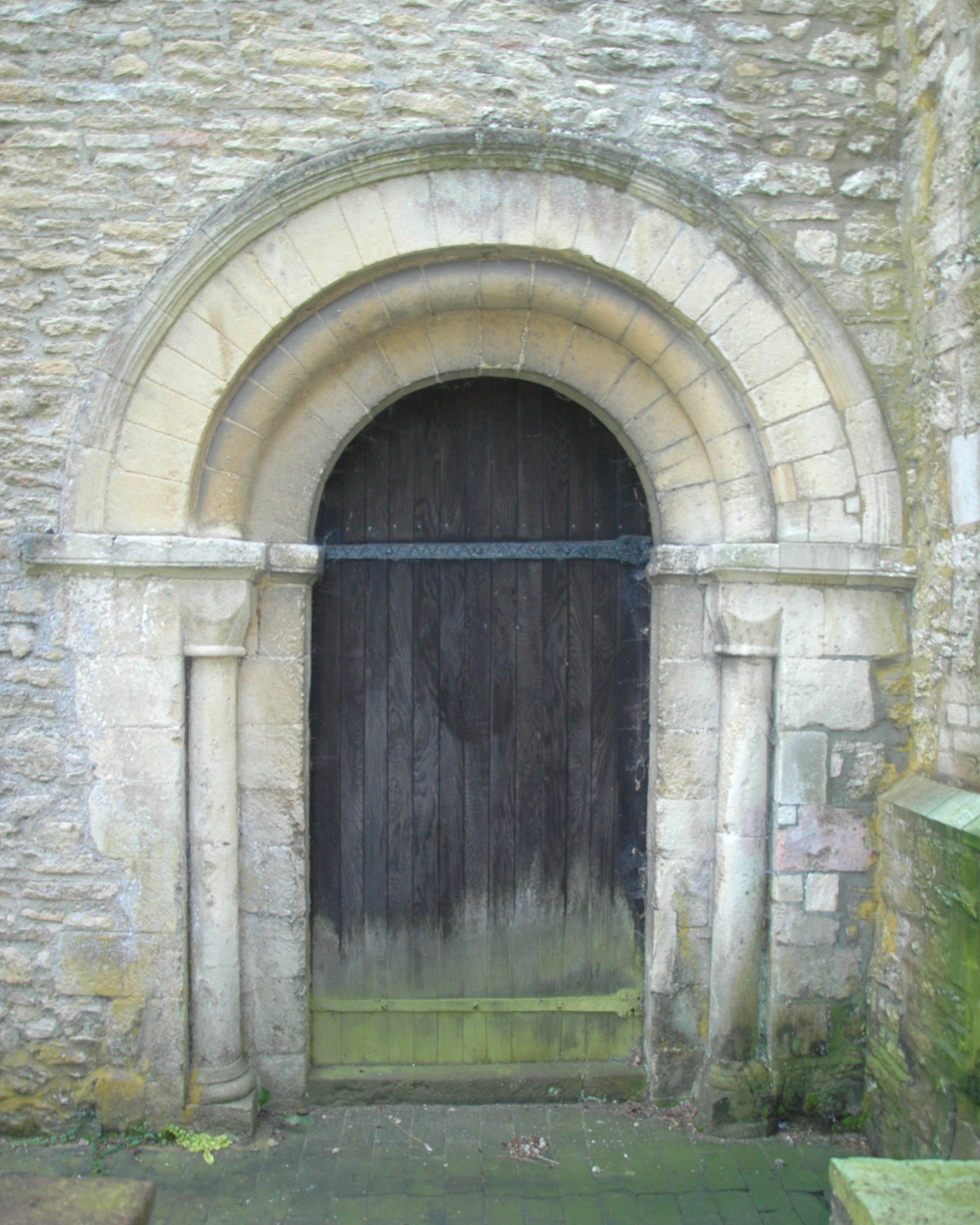 Church of England parish church of St Mary the Virgin, Ambrosden, Oxfordshire: Norman north door